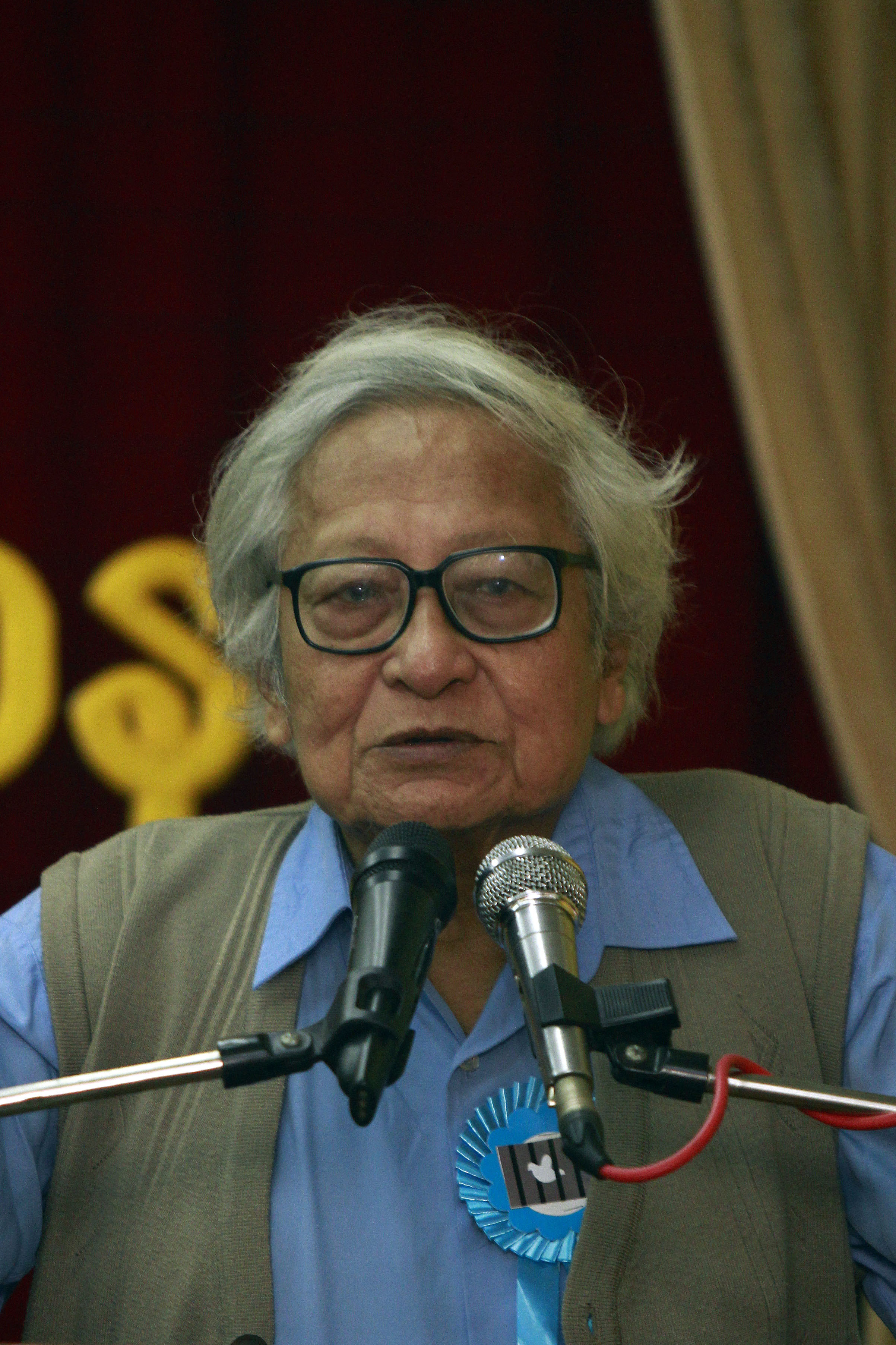 Win Tin gives speech to supporters at National League for Democracy (NLD) headquarter in Yangon, Myanmar on 20 November 2011.